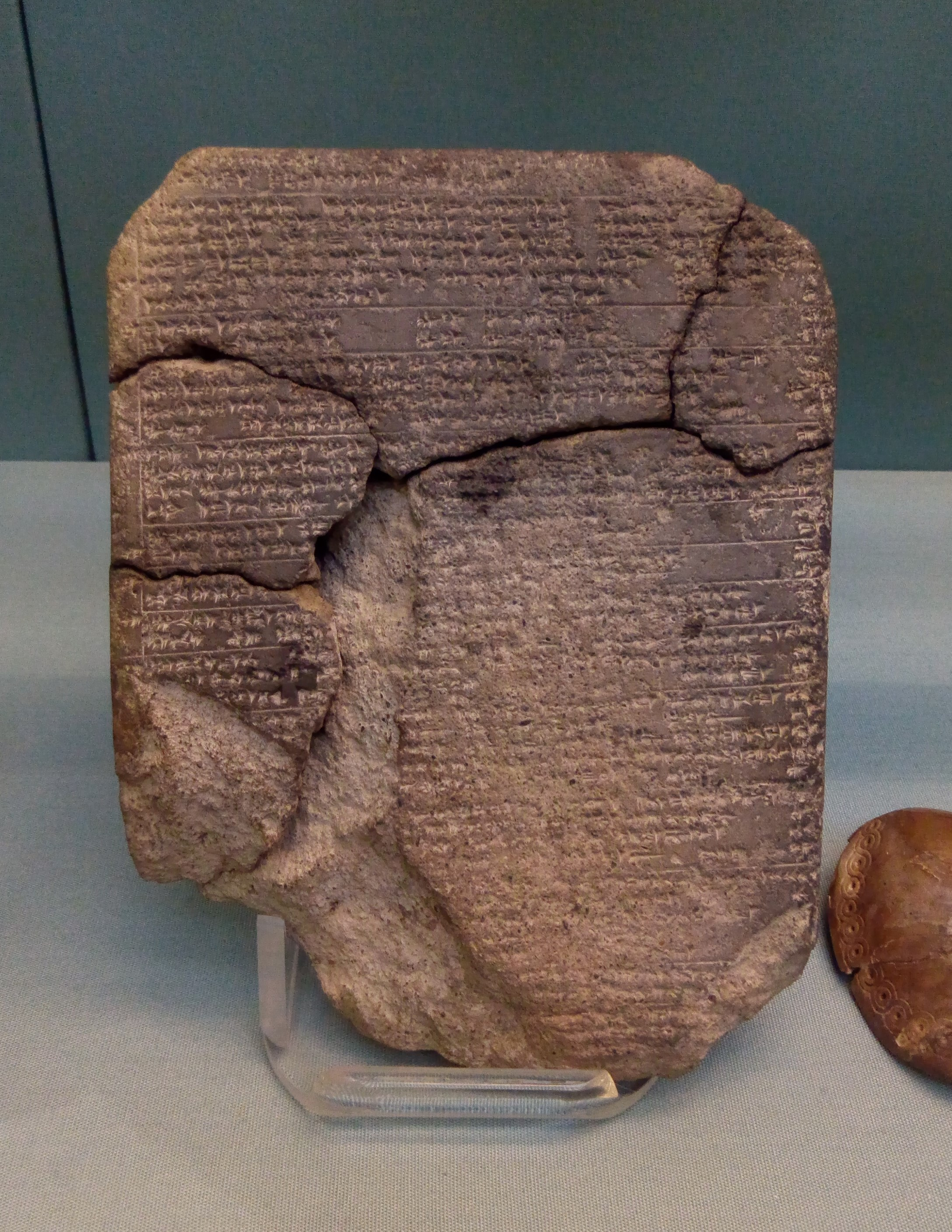 Tablet : treaty between Muwattalli II king of Hatti and Talmi-sharruma king of Aleppo. Found in Bogazkoi, ancient Hattusa, dated c. 1300 BC. CTH 75. Ref museum : ME 140856.